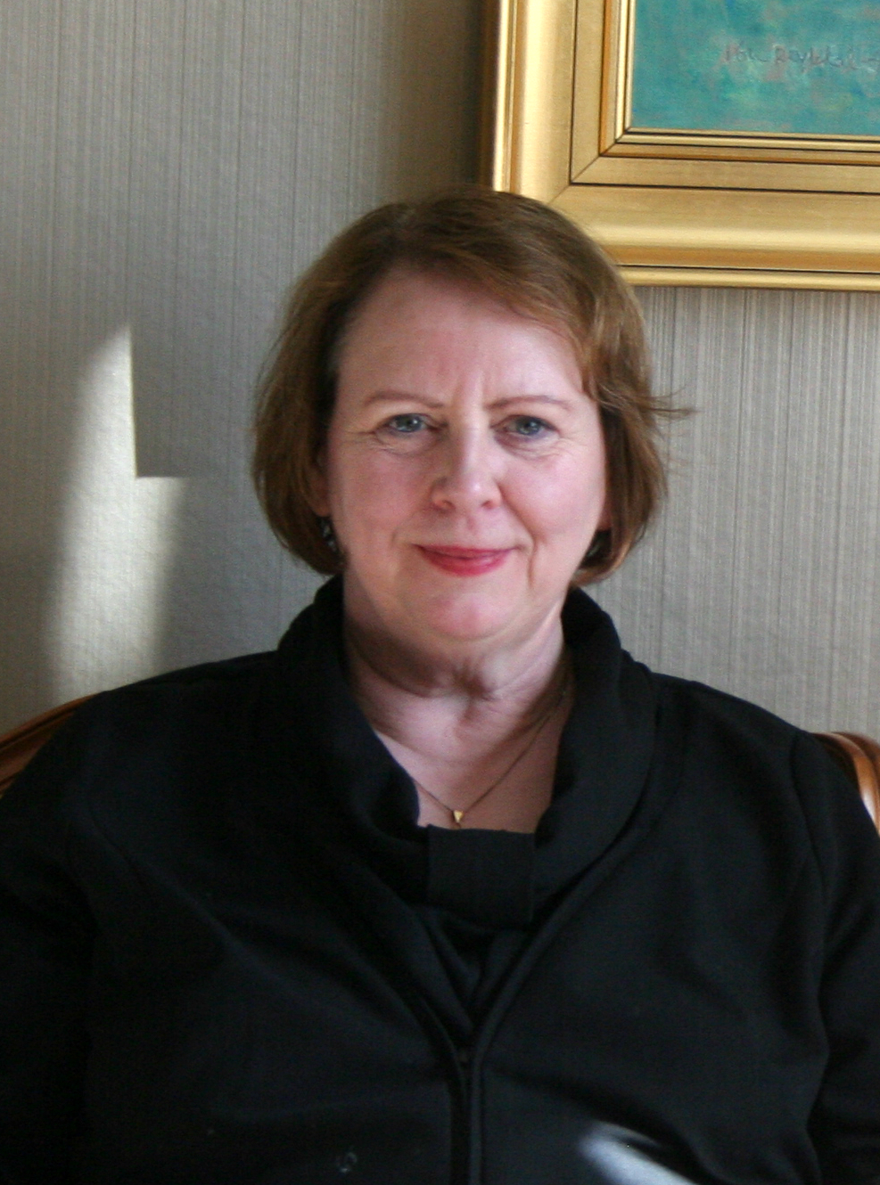 A photo of Bishop of Iceland Agnes Sigurðardóttir, cropped from the original